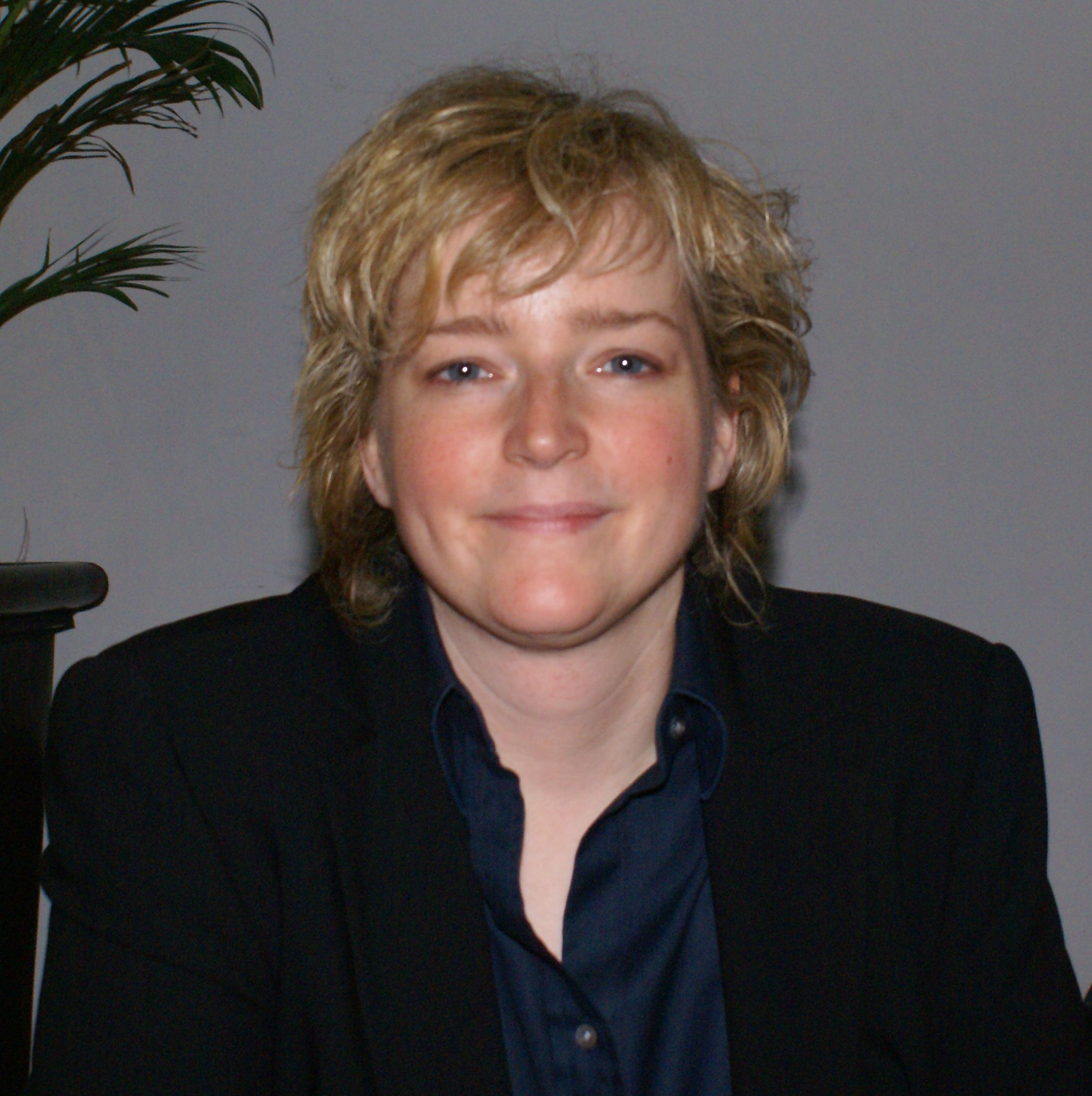 Karin Slaughter at a reading in Ahlen, Germany on Sep. 13th 2010